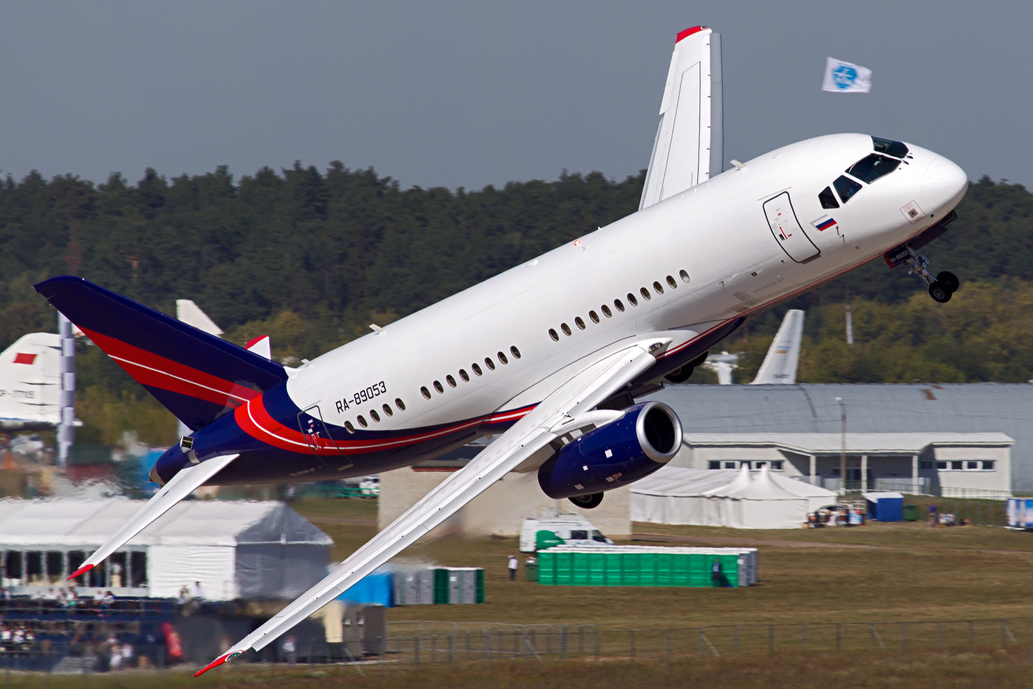 Centre-South Sukhoi Superjet 100 at 2015 MAKS Airshow